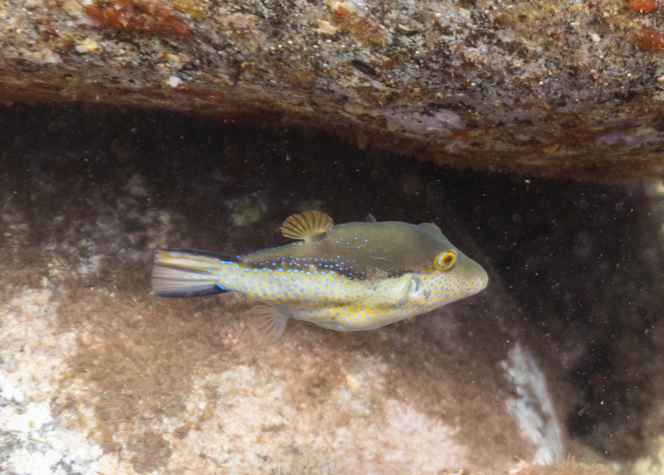 Caribbean sharp-nose puffer (Canthigaster rostrata), Madeira, Portugal